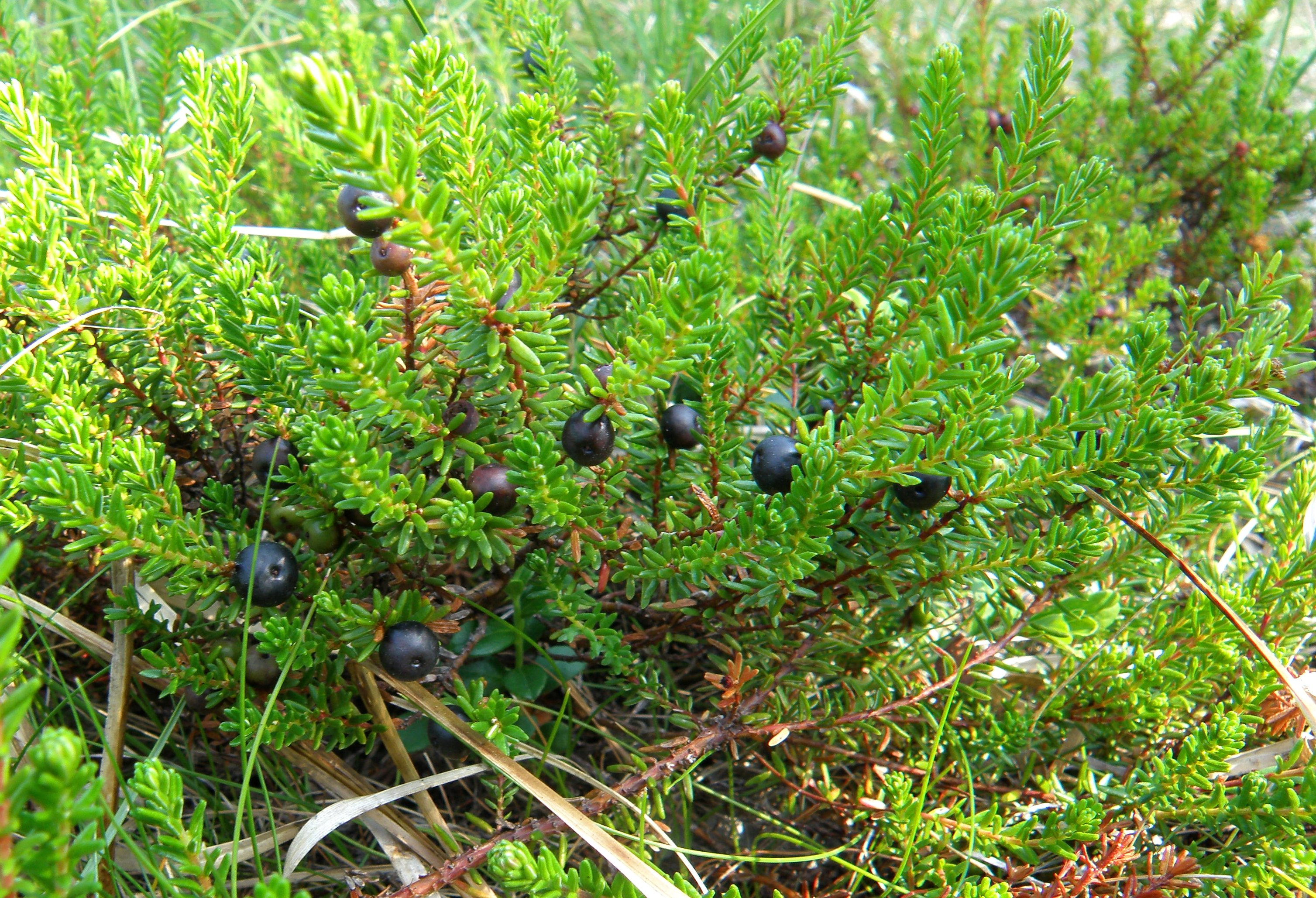 Empetrum nigrum hermaphroditum